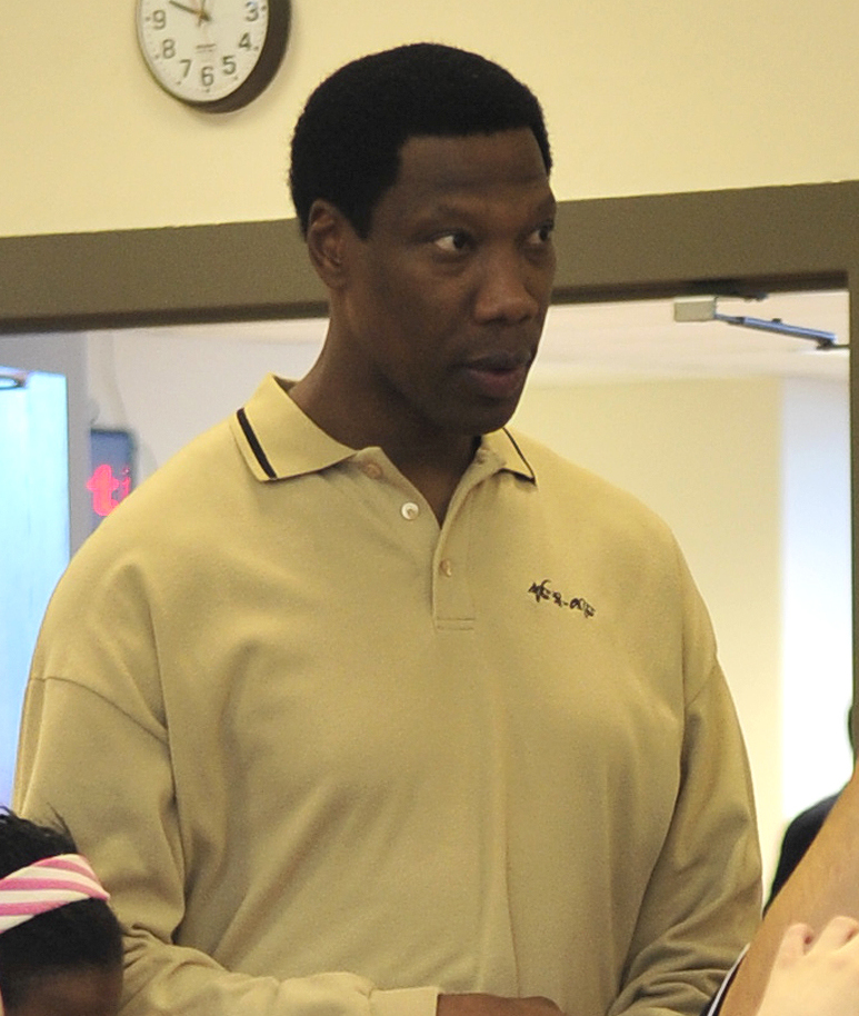 BUCKLEY AIR FORCE BASE, Colo. -- Former Denver Nuggets center Ervin Johnson visits Buckley for the annual Fit Factor Family event at the Buckley Fitness Center March 13. The former National Basketball Association player spoke with the kids and helped them with some free throws.